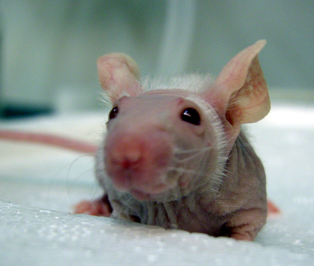 Nude mouse (athymic mouse). Special thanks to PD Dr. Walter Mier (University of Heidelberg